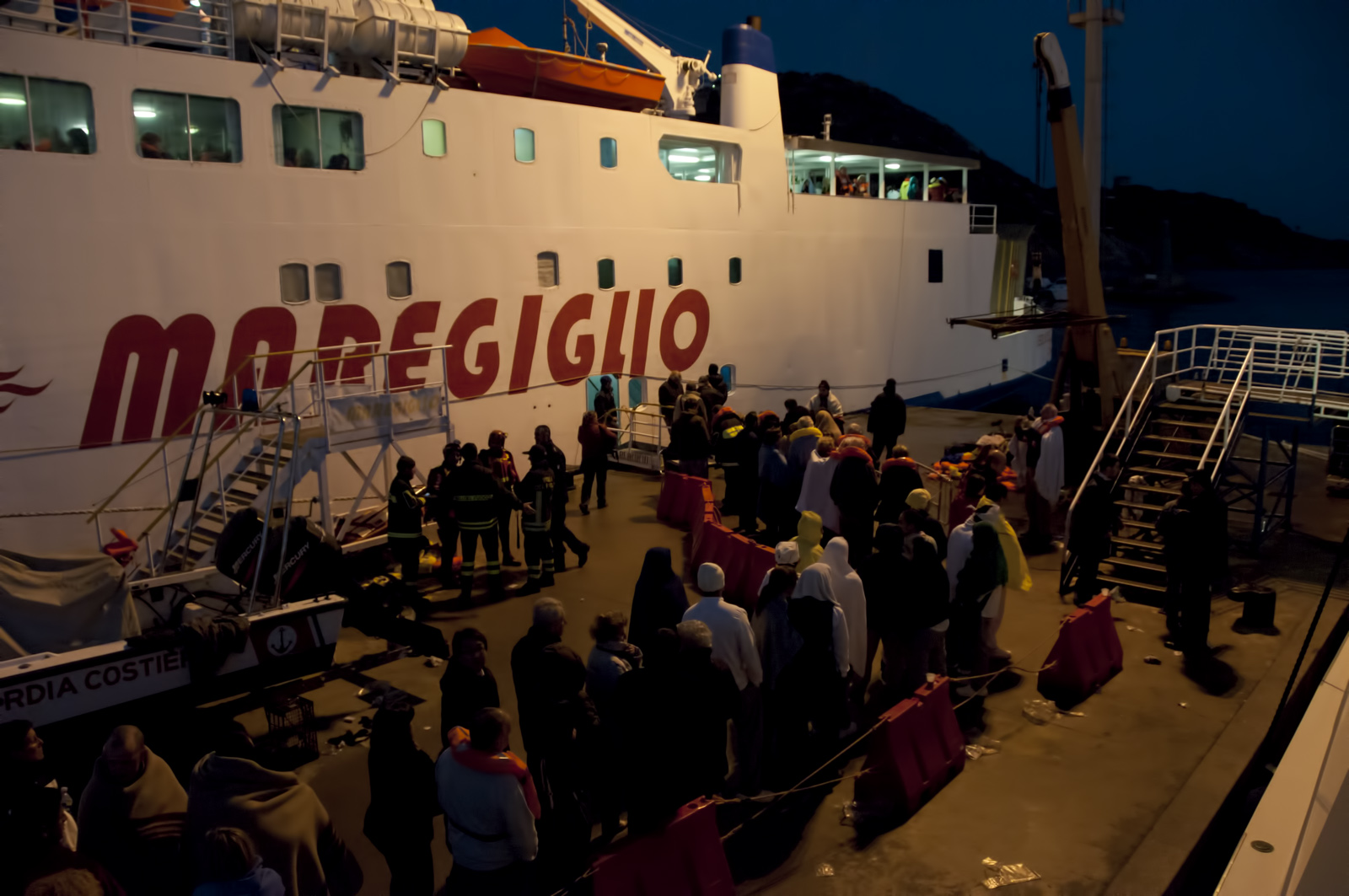 Collision of Costa Concordia - Photo of more survivors, from the shipwreck, who are waiting to board the next ferry from Giglio Island to Porto Santo Stefano in mainland Italy, after the release of id papers.